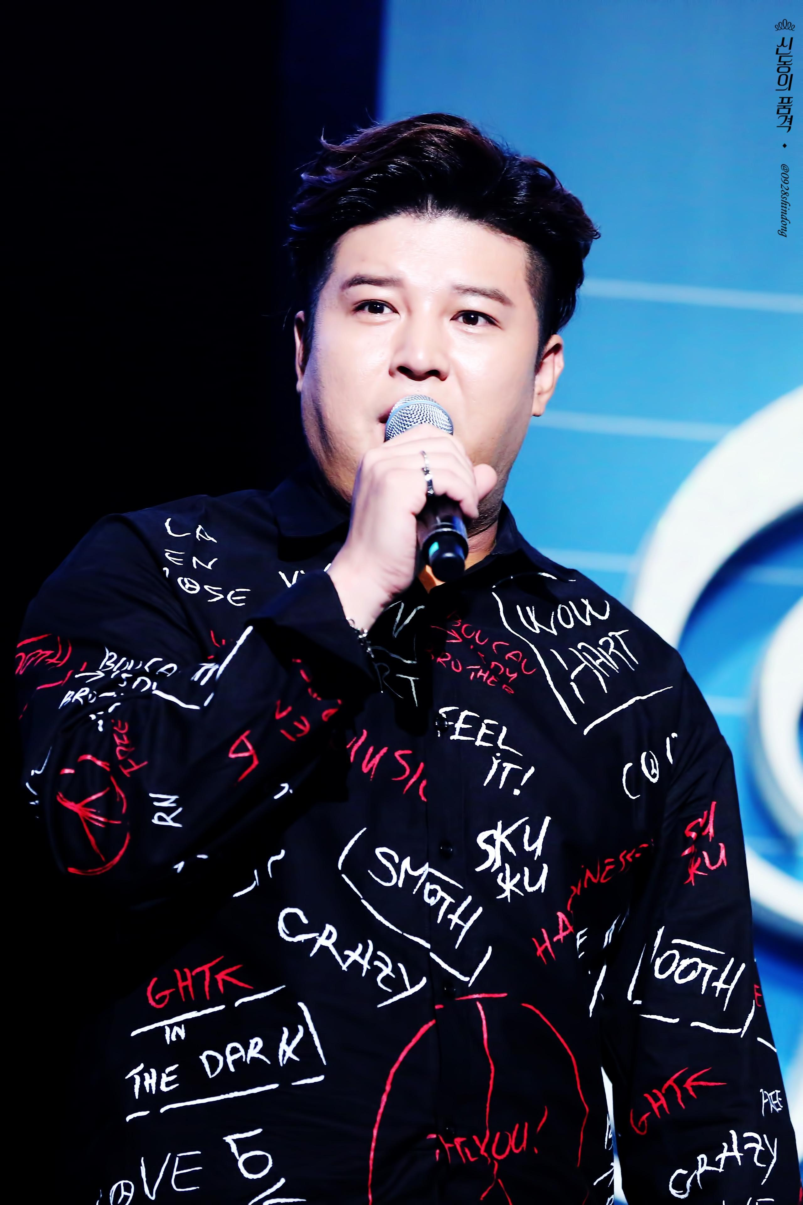 Shindong at the August 29, 2017, Snowball concert